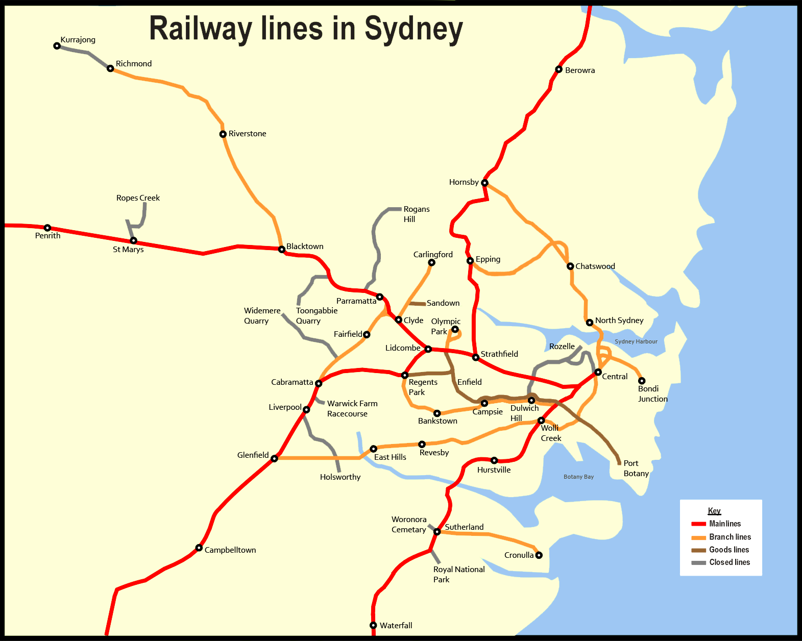 Map of open and closed heavy rail lines in Sydney.